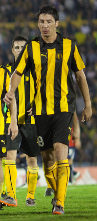 Juan Manuel Olivera playing for Peñarol.